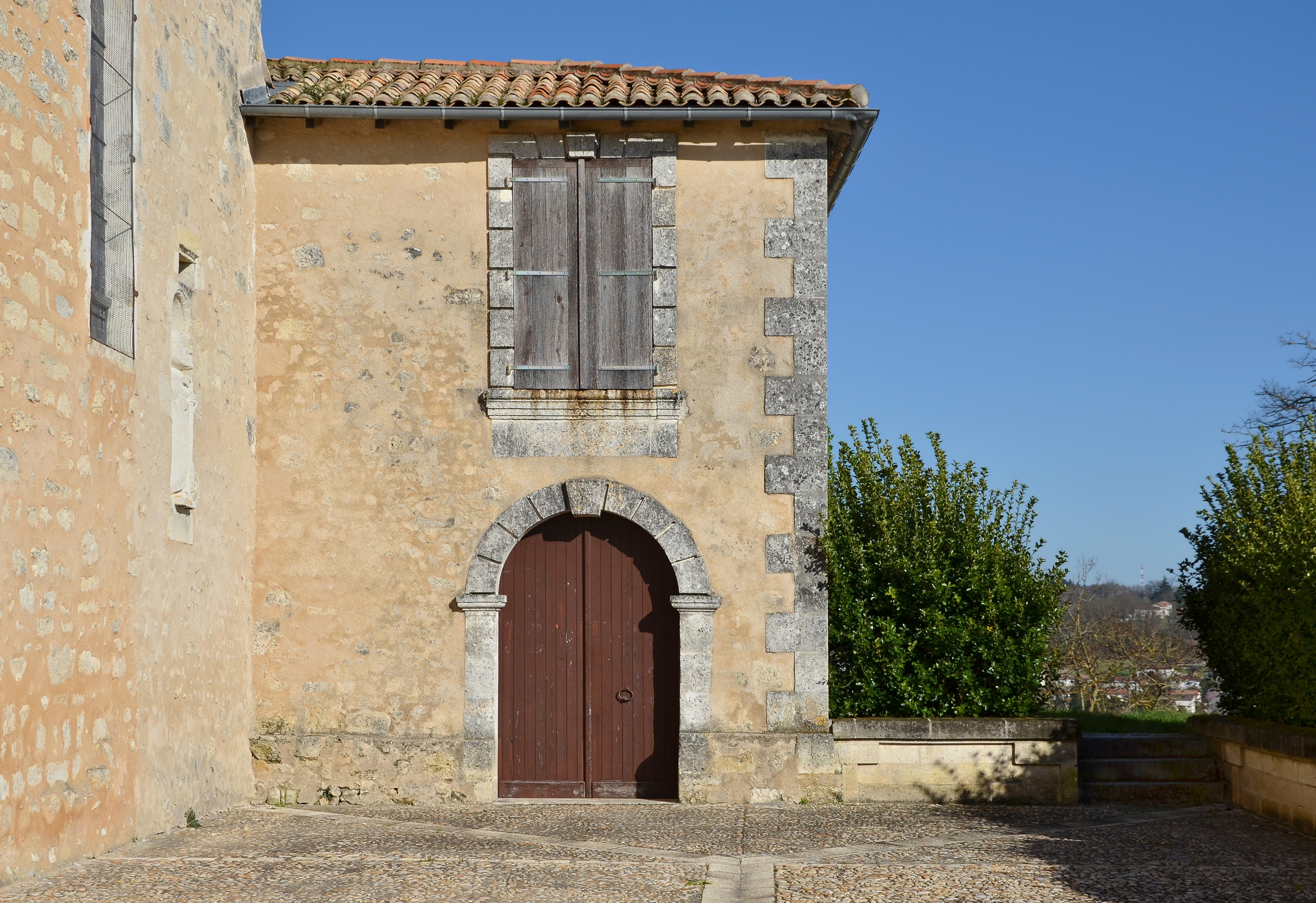 Entrance of the cloister of Saint-Martial (17th century), Chalais, Charente, France